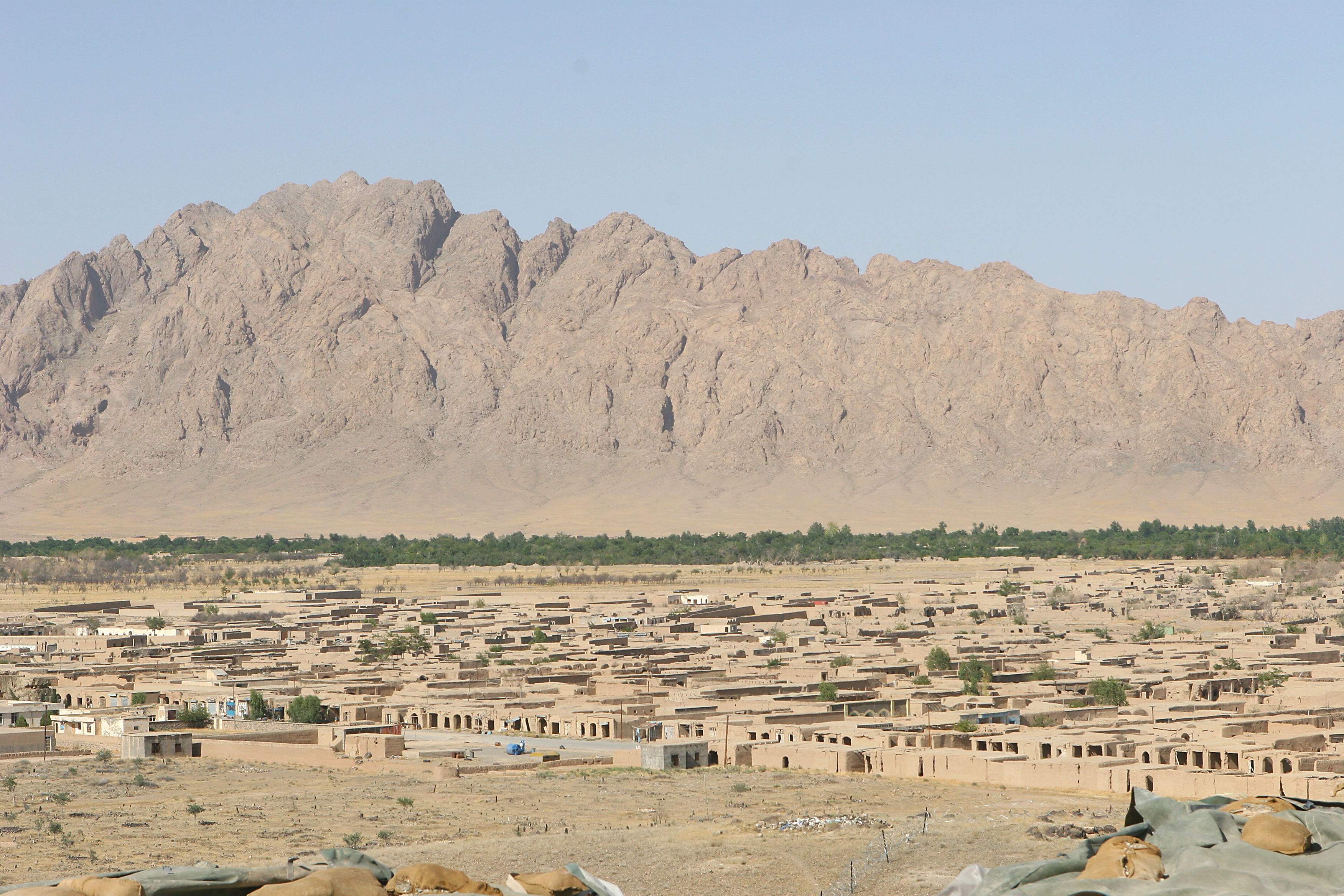 U.S. Marines ride in armored vehicles while conducting an operation in the village of Now Zad in Helmand province, Afghanistan.